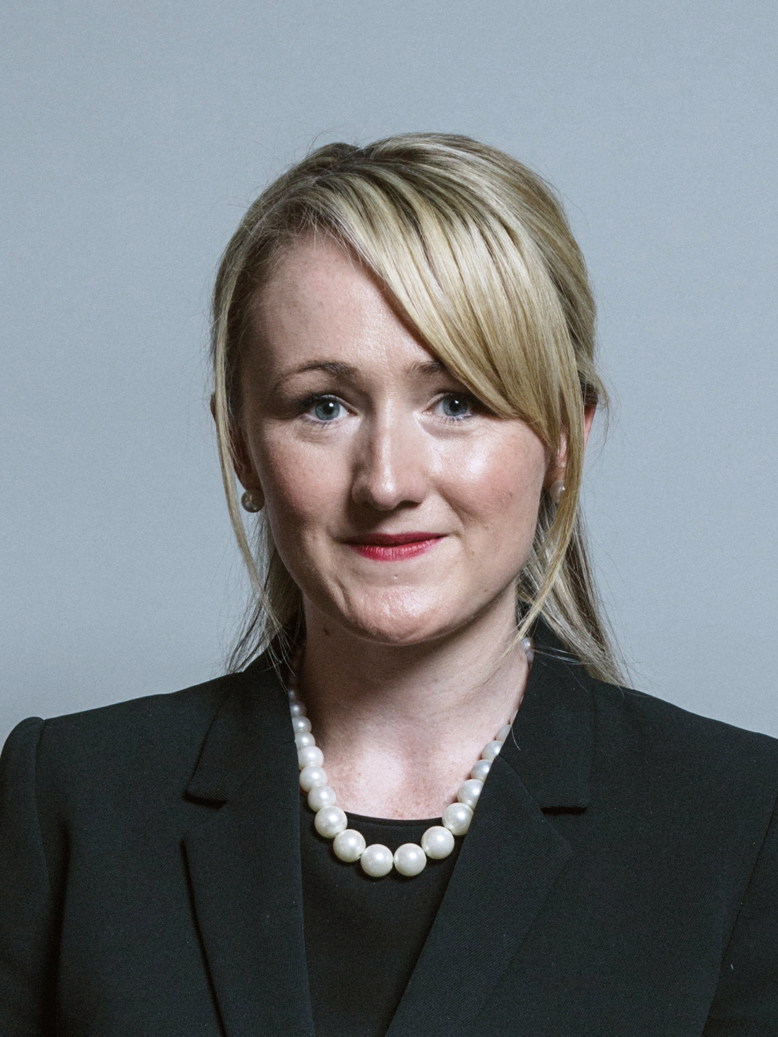 Official portrait of Rebecca Long Bailey, taken in June 2017